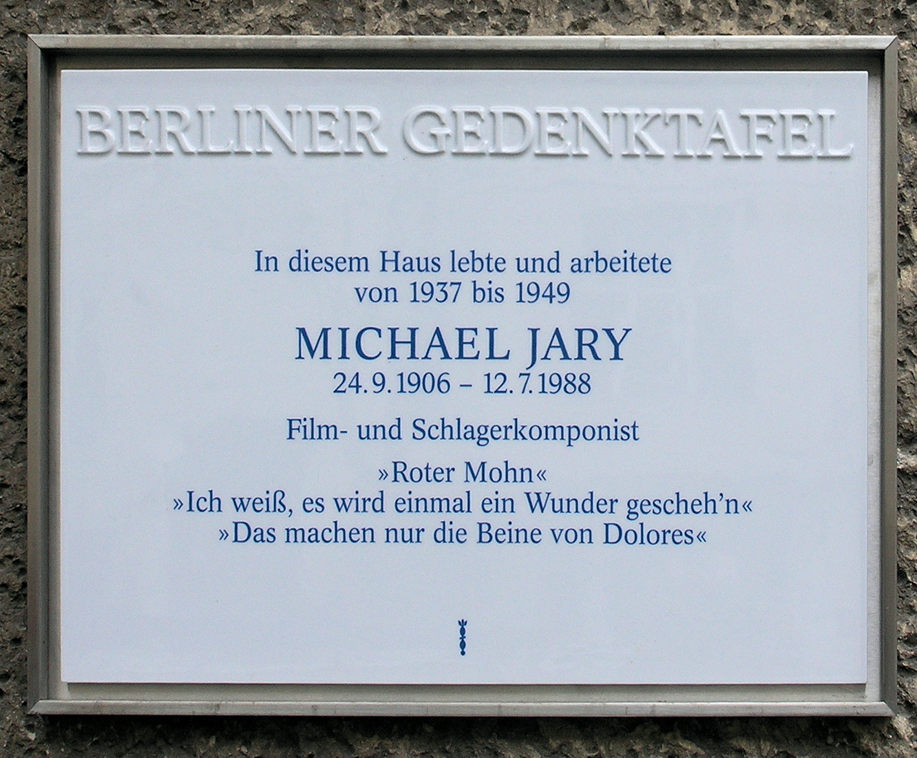 Berlin memorial plaque, Michael Jary, Fasanenstraße 60, Berlin-Wilmersdorf, Germany